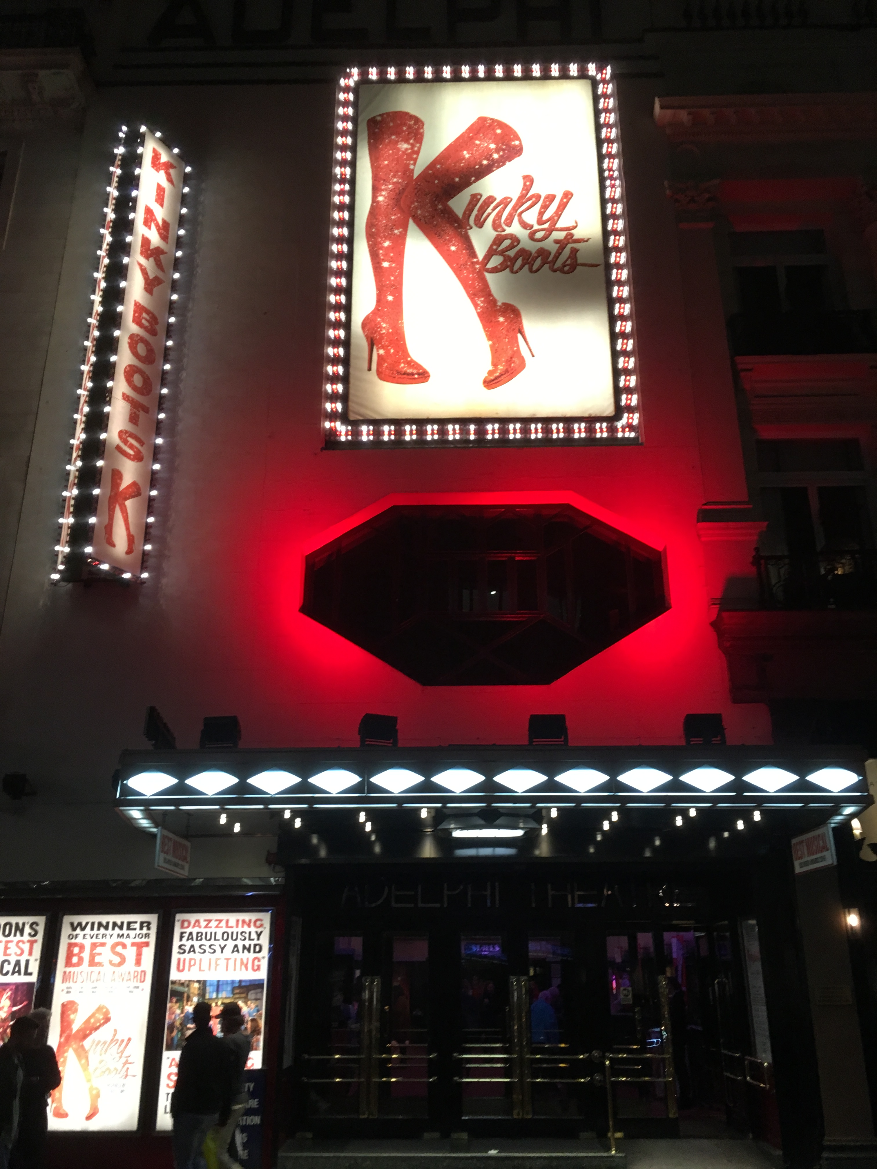 Musical "Kinky Boots" in Adelphi Theatre, London, England (September 2017)